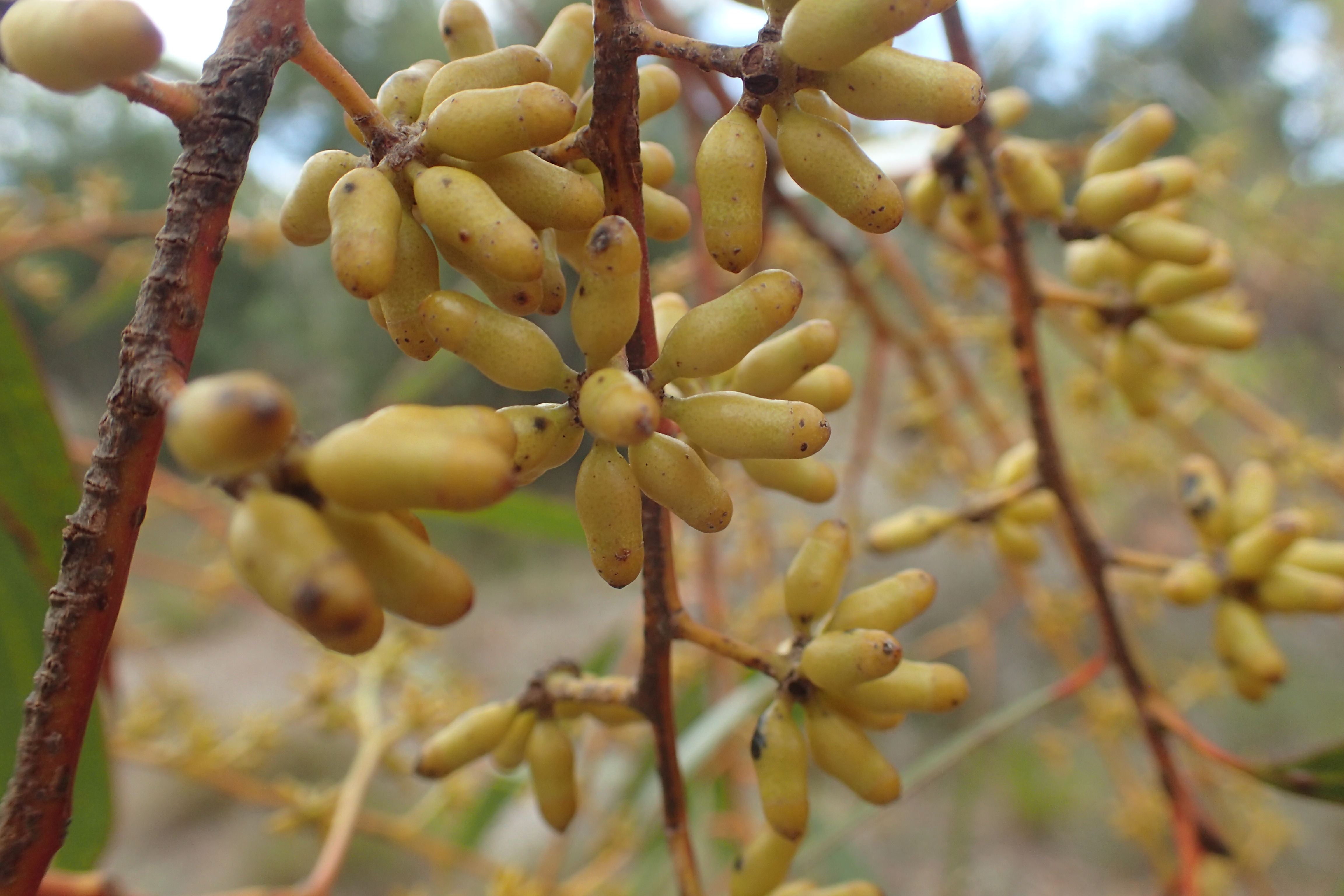 Flower buds of Eucalyptus brockwayi in Helms Arboretum, near Esperance, W.A.